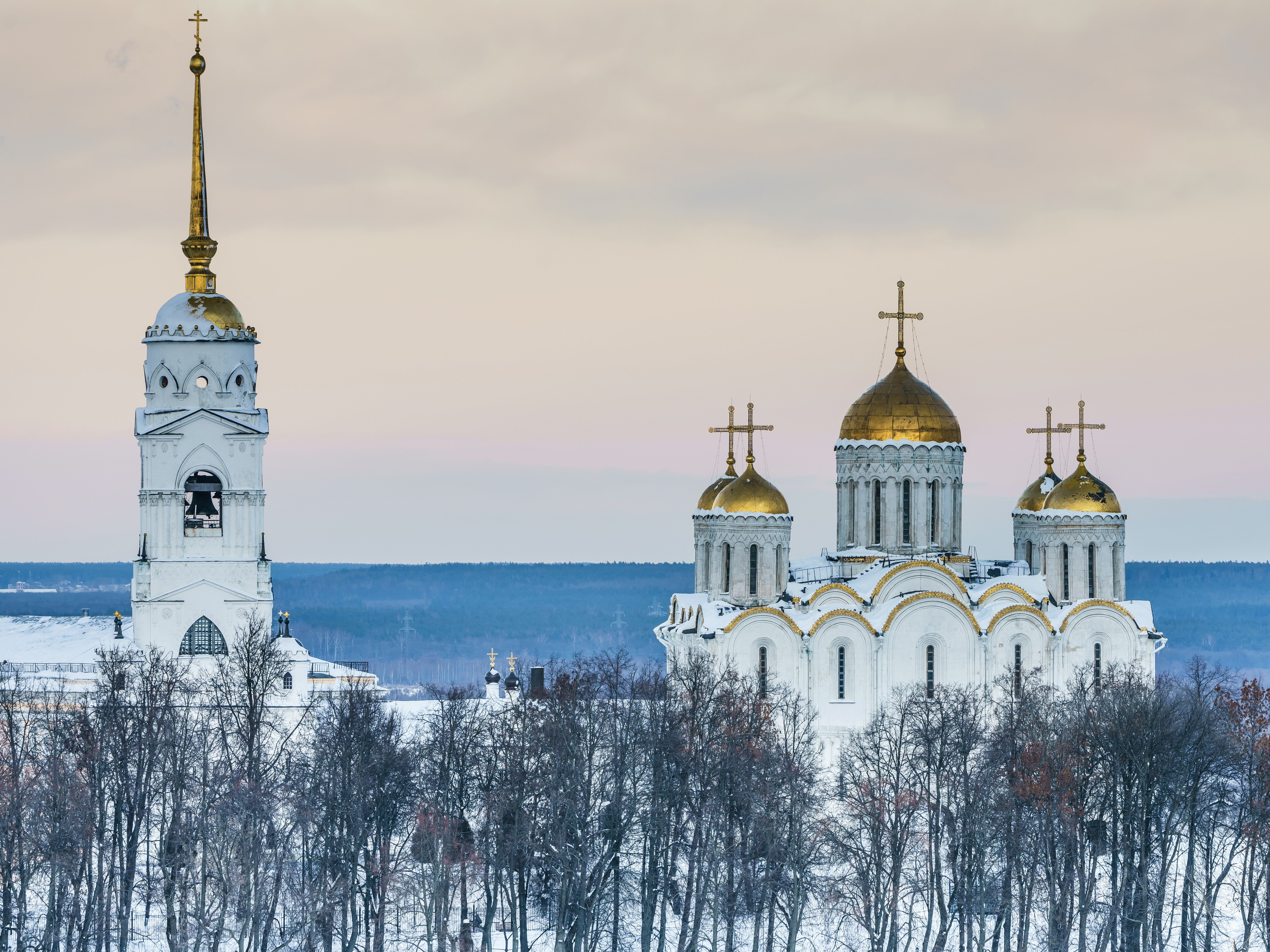 View of the Assumption Cathedral from the Water Tower in Vladimir, Russia